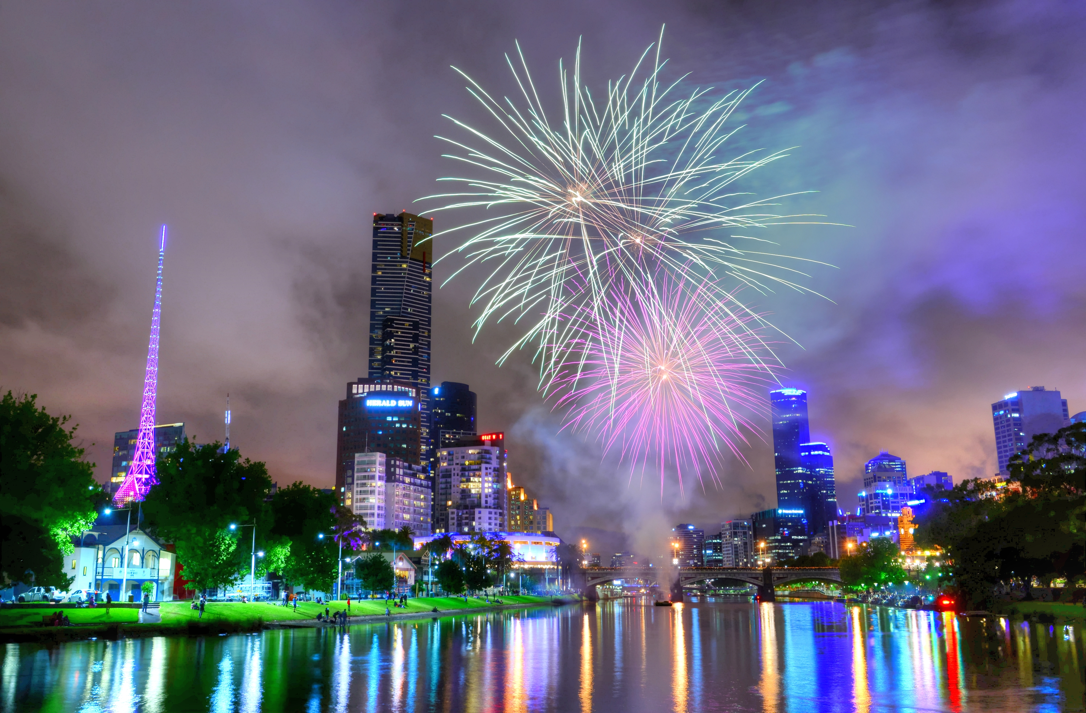 Diwali Fireworks The festival of lights is now celebrated in many parts of the world, outside of South Asia. Australia 2013